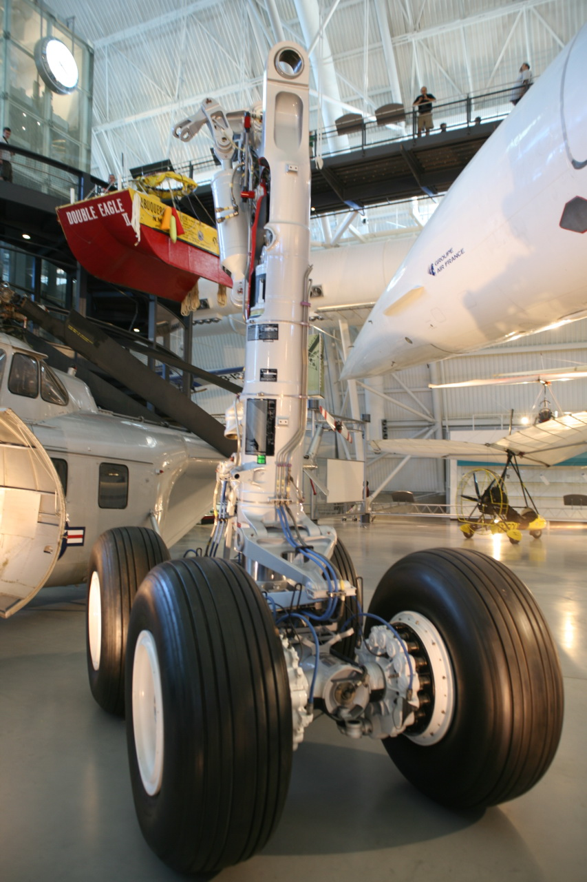 Built by Safran Landing Systems (Previously Messier-Buggati Dowty), this main landing gear is standard equipment on Airbus A330 and A340 wide-body airliners. Immensely strong, this gear features a unique, space-saving retraction mechanism, shown in the cutaway section. This mechanism allows the gear to be stored compactly when retracted while providing excellent ground clearance when extended. Weighing 3,400 kilograms (7,500) pounds) this main landing gear is one of the largest in commercial service. This particular gear was removed from an A330 that made a successful forced landing in 2001. It was restored by Messier-Dowty and delivered to the museum.